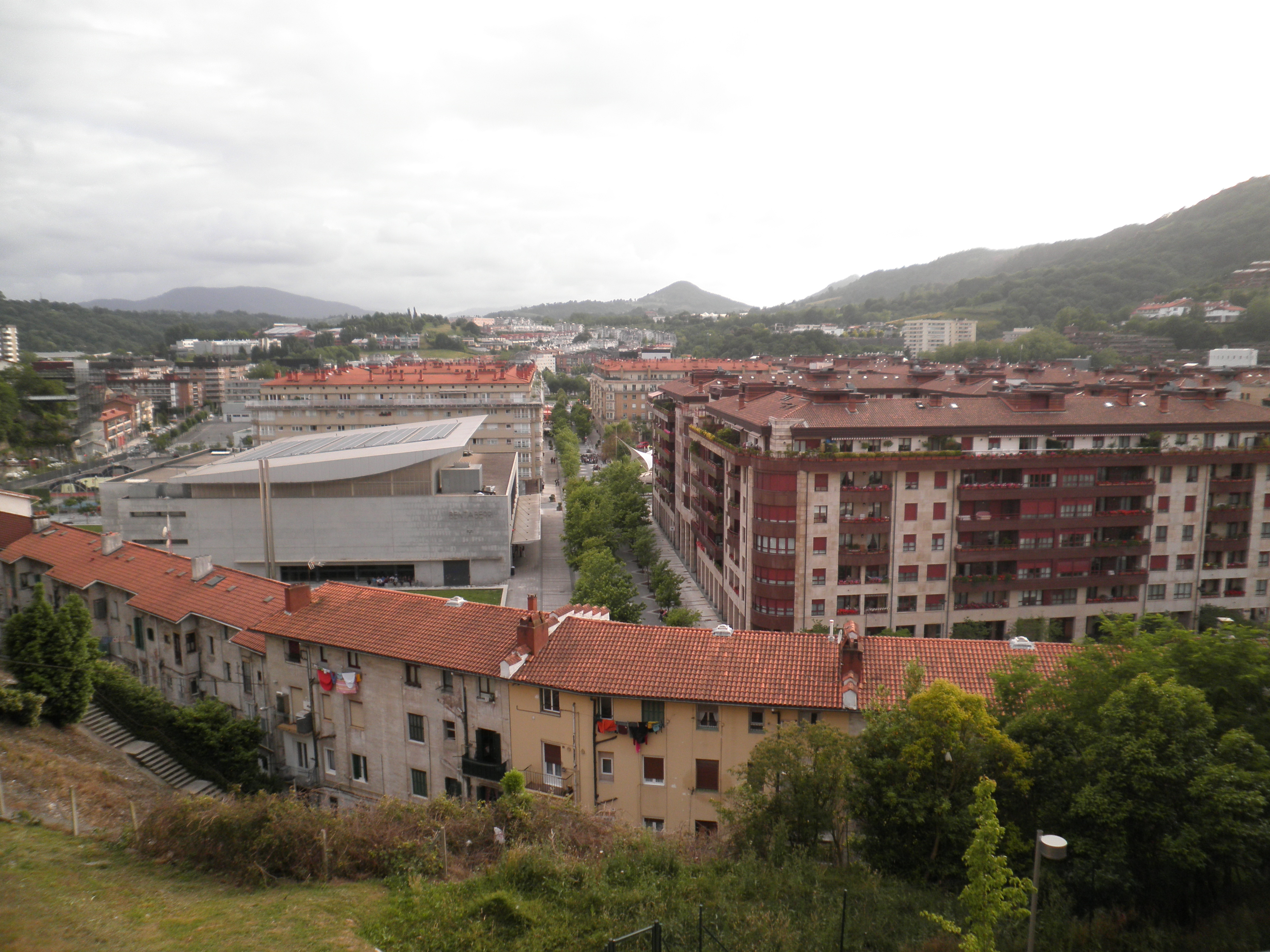 View of Benta Berri neighbourhood in Donostia.